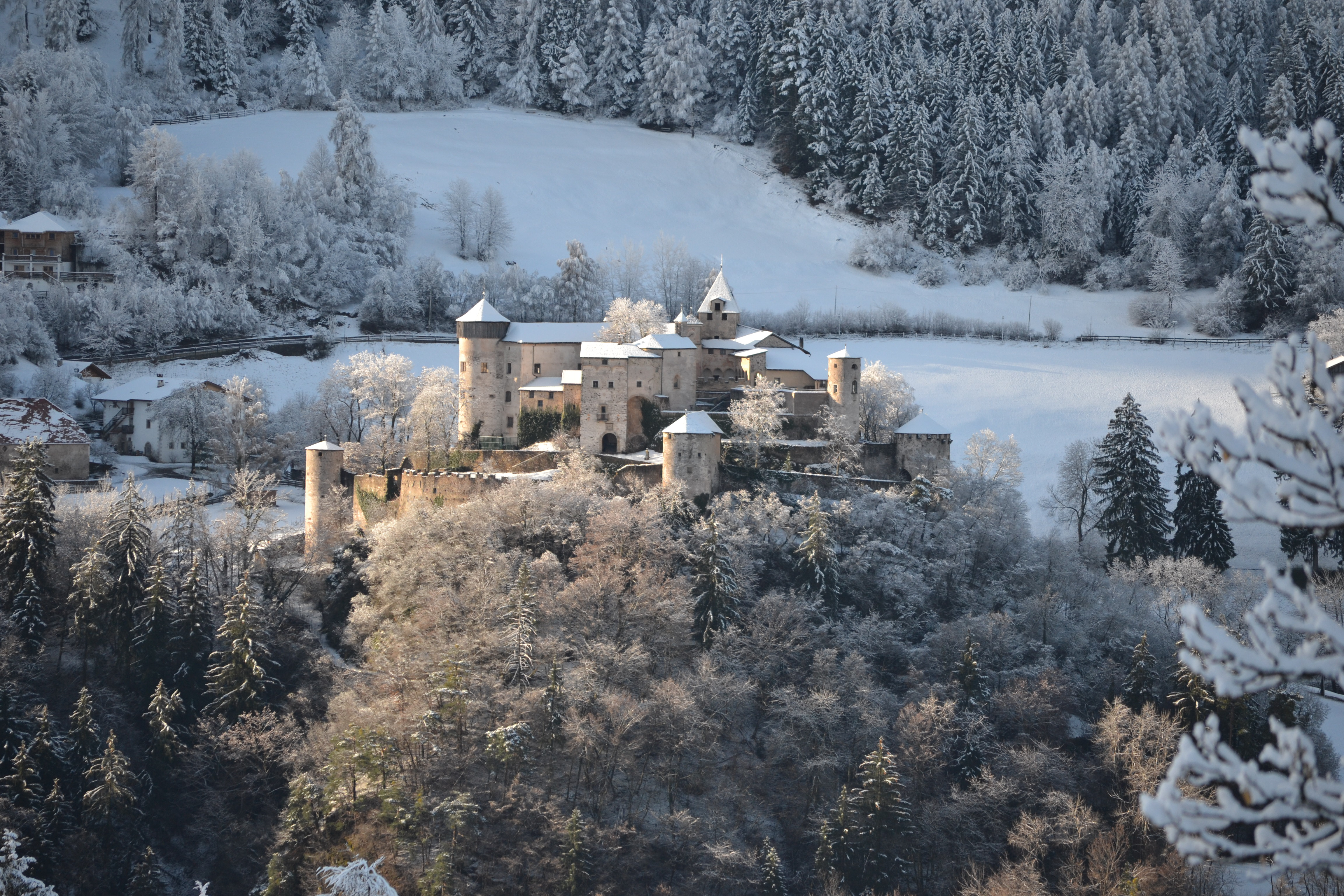 Prösels Castle is a castle in the Gothic style which stands on the high plain below the Schlern mountain, in South Tyrol of the commune of Völs am Schlern. The castle was first named in a document from 1279.